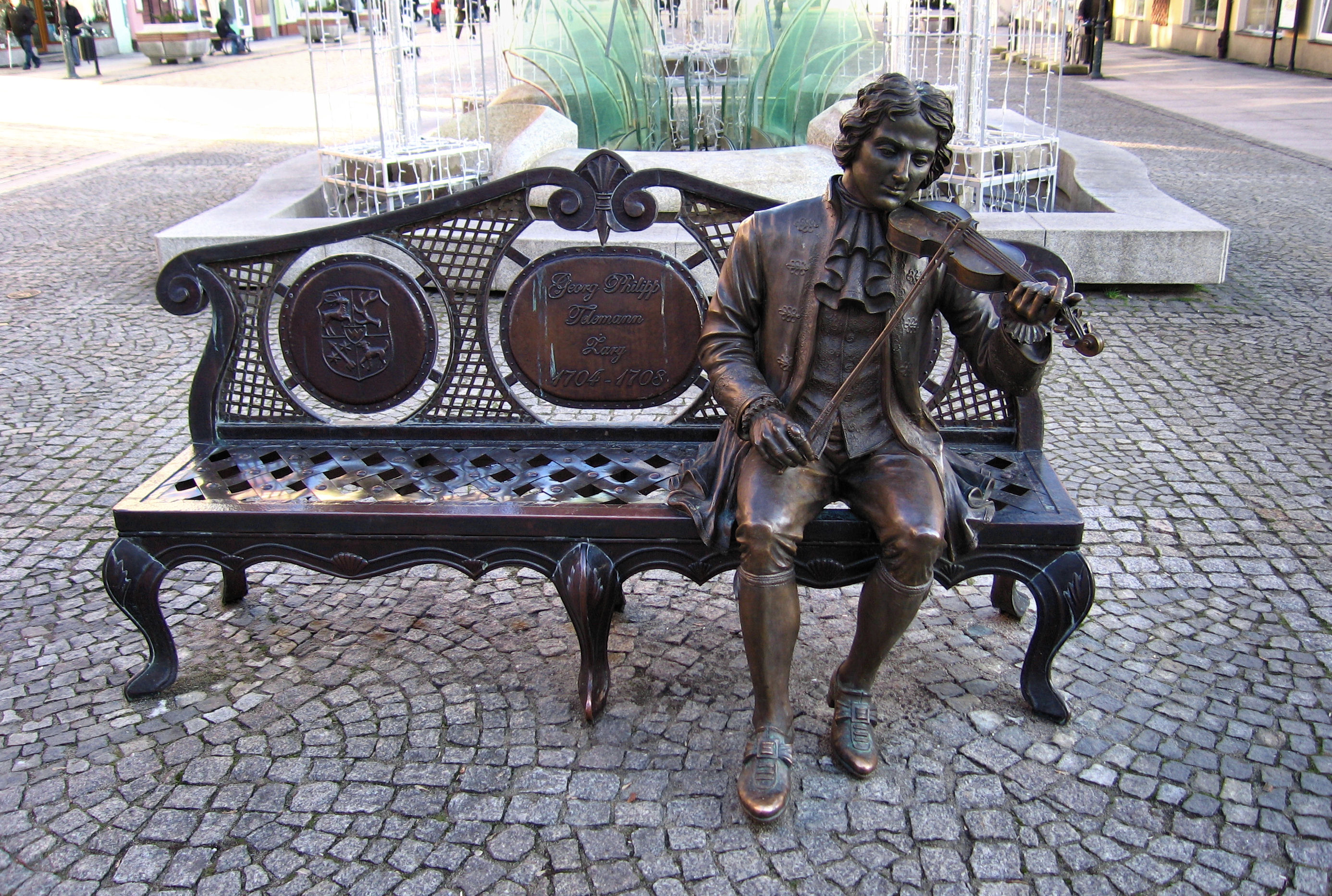 Bench G. F. Telemann in Żary